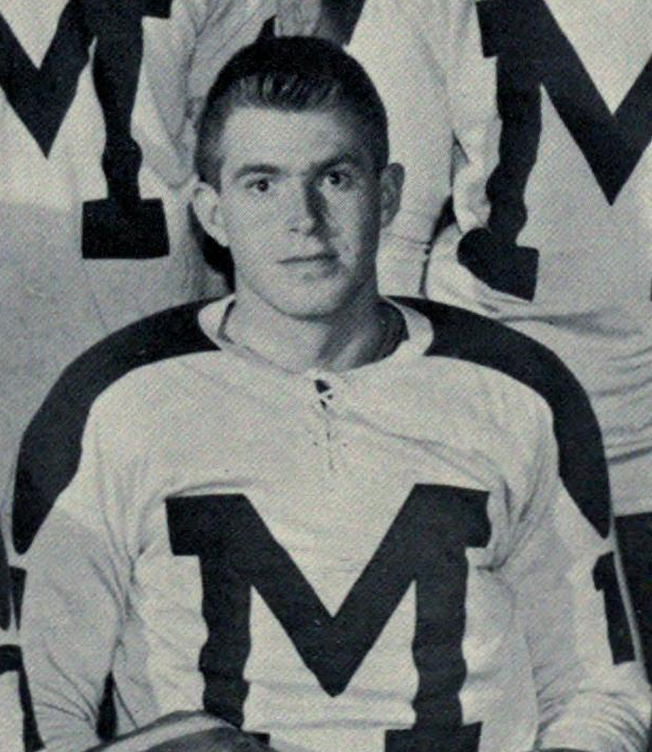 Dave Dryden at St. Michaels College School, c. 1961